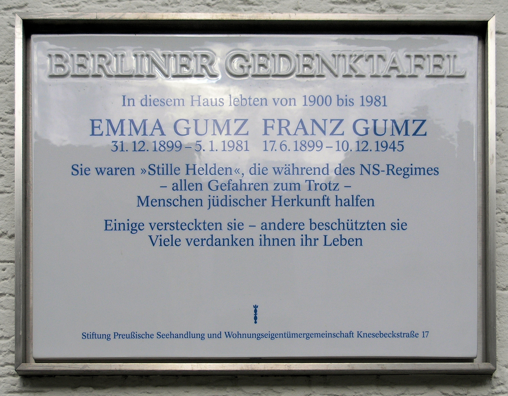 Berlin memorial plaque, Emma und Franz Gumz, Knesebeckstr 17, Berlin-Charlottenburg, Germany